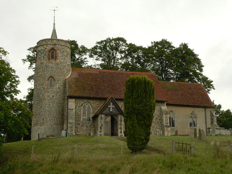 Aldham St Mary